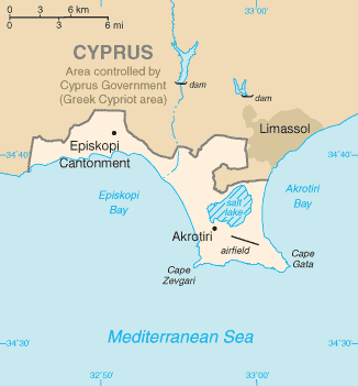 A map of Akrotiri in Cyprus.